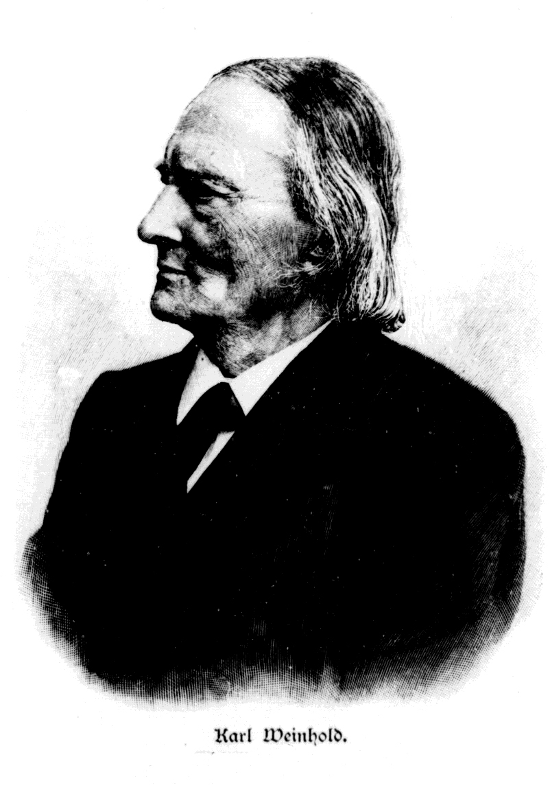 Depicted person: Karl Weinhold – German folklorist and linguist